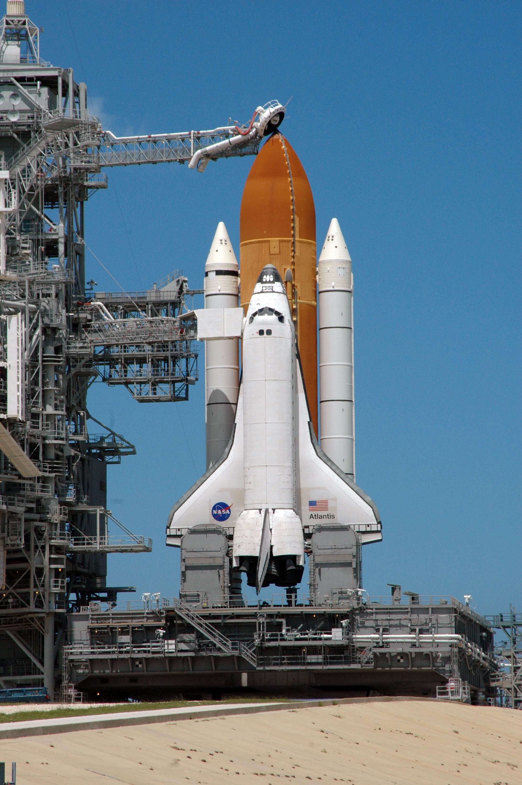 The sky is finally clear behind Launch Pad 39B where Space Shuttle Atlantis still sits after the scrub of its launch on mission STS-115. Atlantis was originally scheduled to launch at 12:29 p.m. EDT on this date, but a 24-hour scrub was called by mission managers due to a concern with fuel cell 1. Just above the orange external tank is the vent hood (known as the "beanie cap") at the end of the gaseous oxygen vent arm. Vapors are created as the liquid oxygen in the external tank boil off.